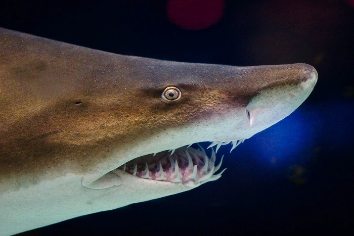 Grey nurse shark (Carcharias taurus) at the Minnesota Zoo in Apple Valley, MN. Photo taken from shifting pixel, photographer: Joe Lencioni. Category:Images of Minnesota